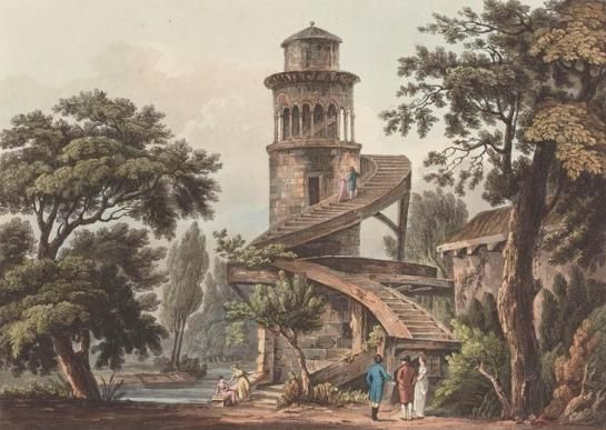 Tour de Marlborough - Hameau de la Reine - Trianon, Versailles